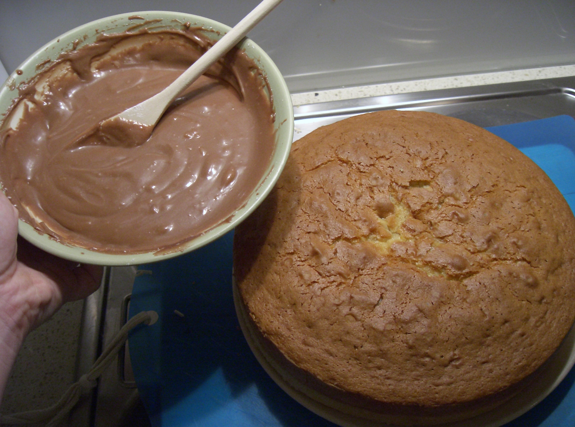 Cookbook:Chocolate Sour-Cream Icing about to be spread on Cookbook:1-2-3-4 Cake.